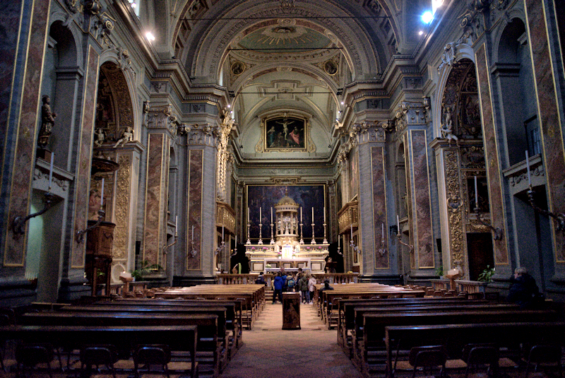 Church of San Benedetto in Crema (Italy), internal